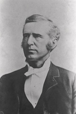 Thomas Mead Bowen (1835-1906), a Senator from Colorado, served from March 4, 1883, to March 3, 1889.